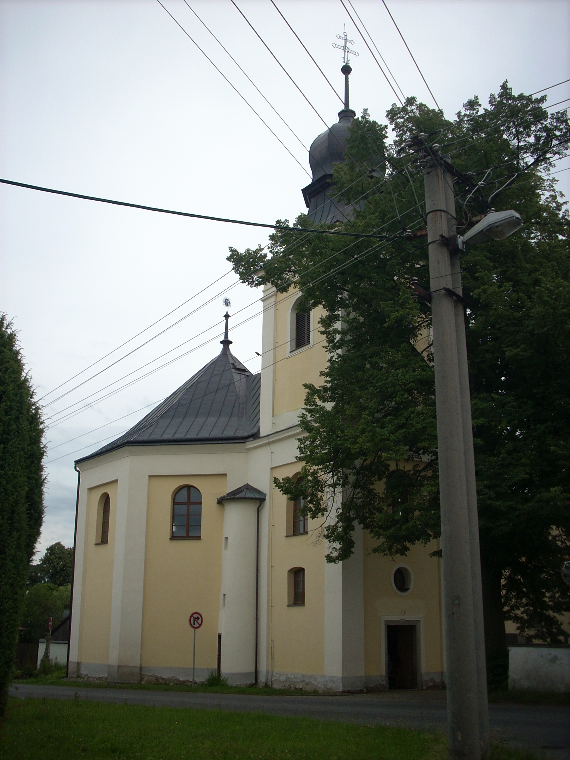 Jamné, Church of Finding of the Holy Cross